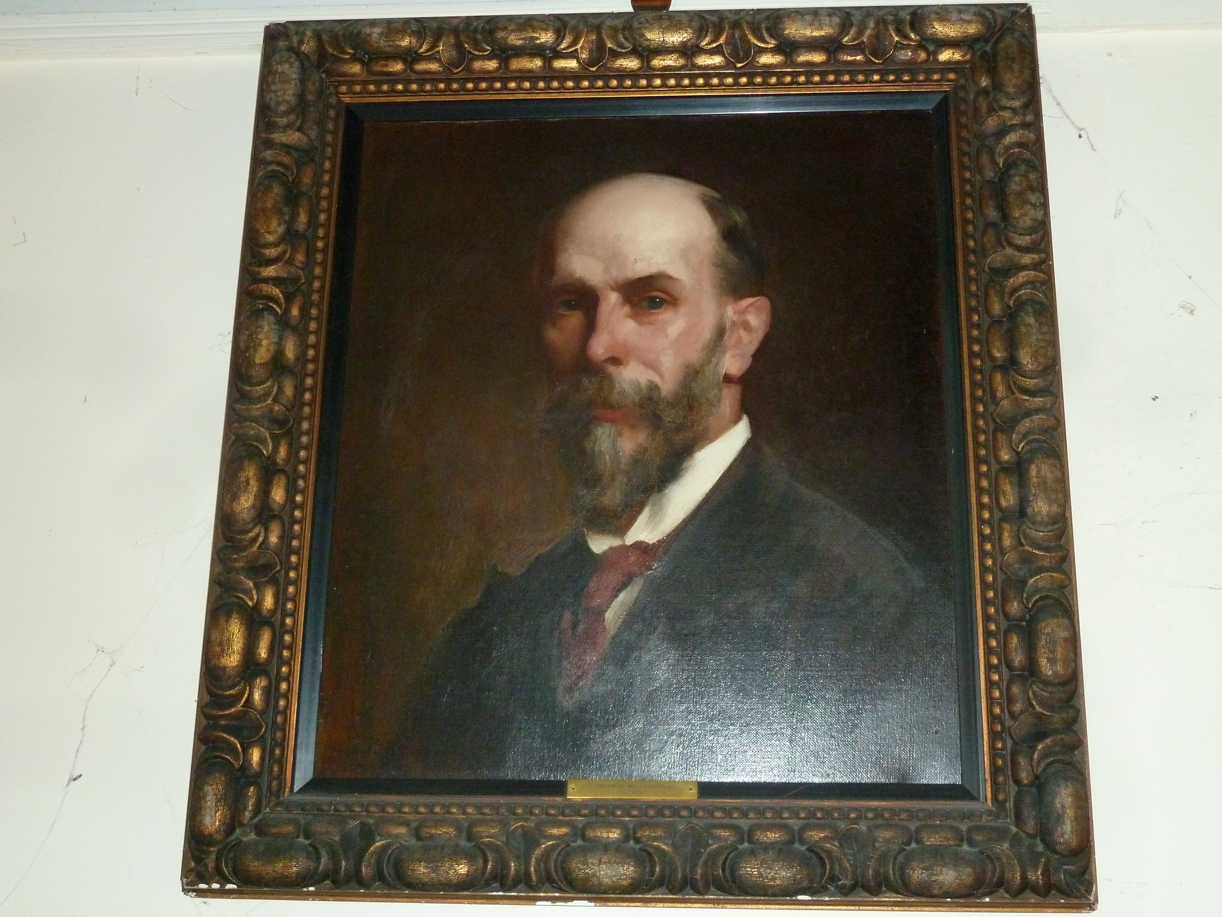 American born British artist who exibited at The Royal Academy from 1886 to 1942; and created memorials at St Paul's Cathedral and lambeth Palce.